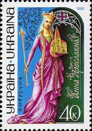 Stamp of Ukraine